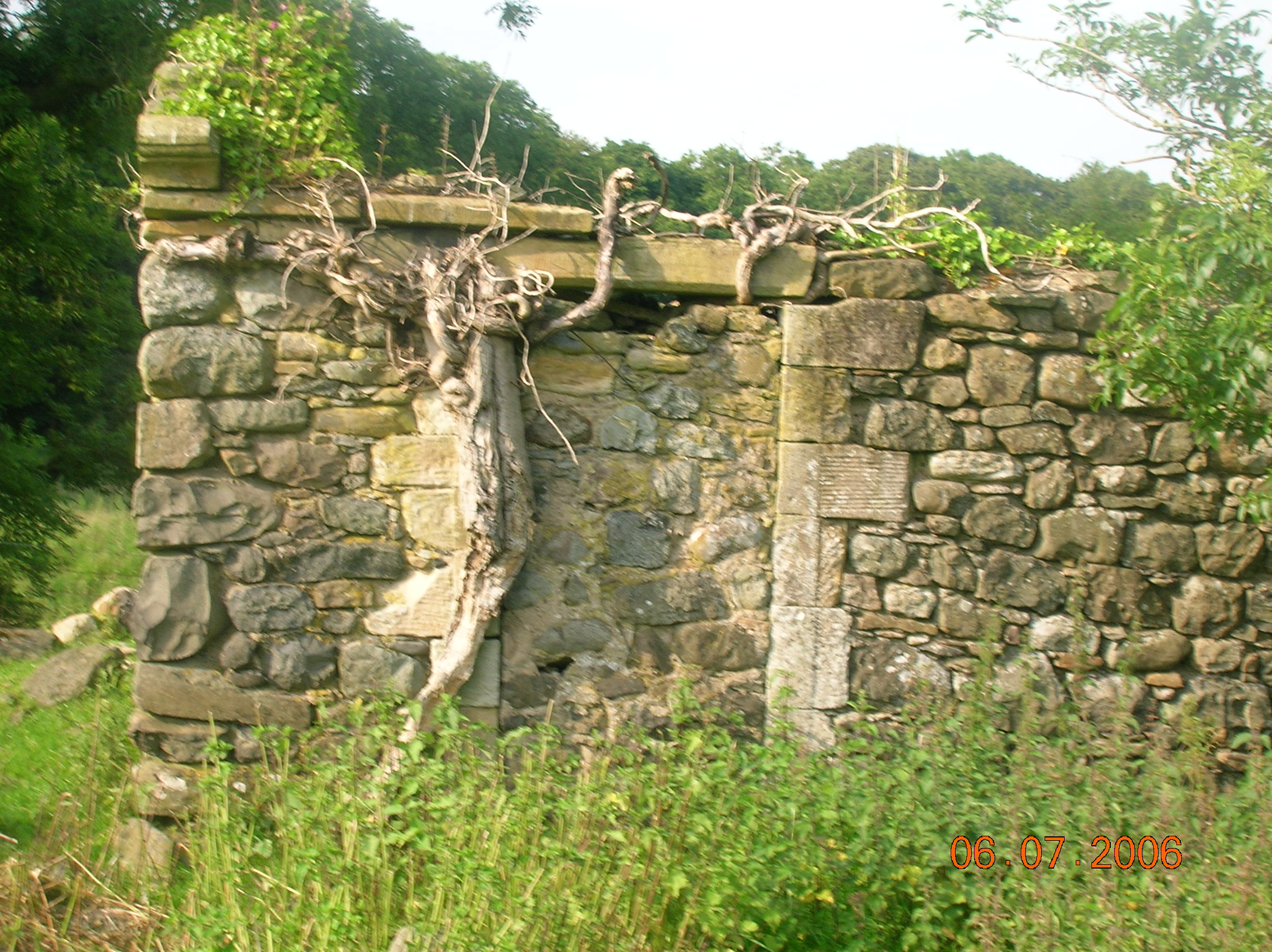 A possible 'cottage orne' beside the Annick Water near Cunninghamhead, North Ayrshire, 2006